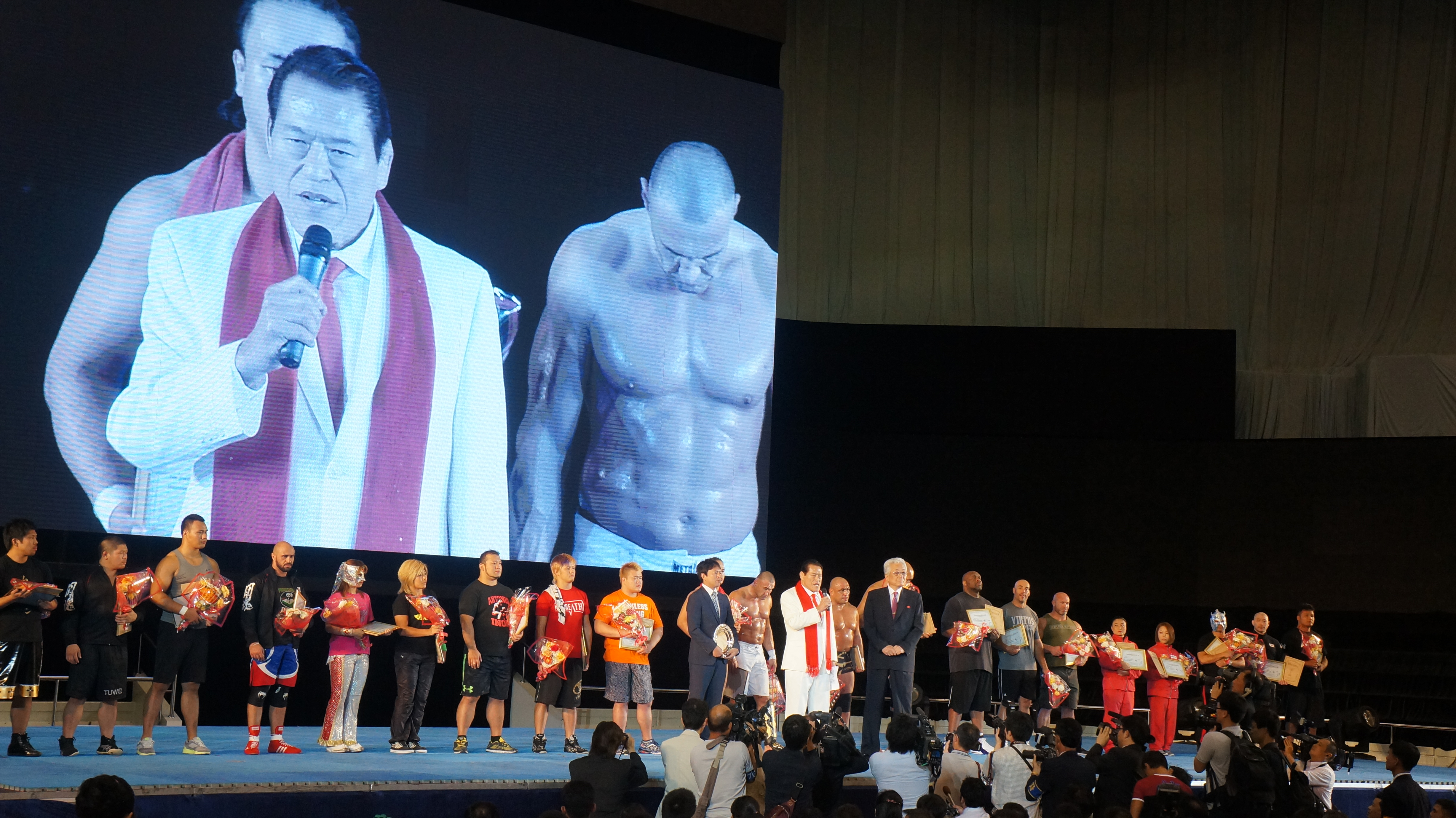 Inoki closing speech